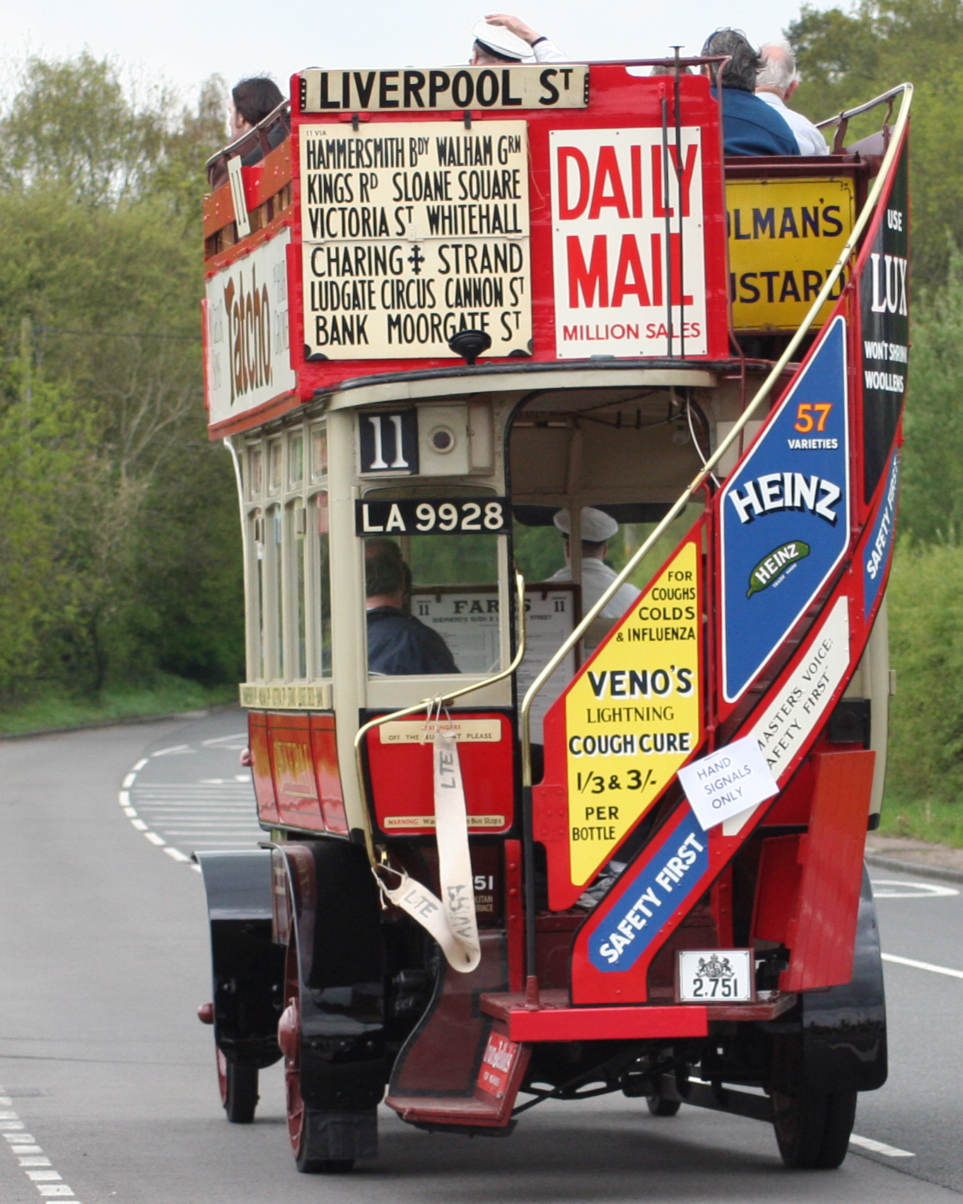 The 1911 built LGOC B-type bus, number B340 (reg. LA 9928), designed by Frank Searle & built and operated by the London General Omnibus Company, owned by the London Transport Museum, and pictured on the London to Brighton run, Sunday 7th May 2006. "B340 has been owned by the London Transport Museum since it was taken out of service in the 1920s. It saw service in the First World War taking troops to the trenches of France. The London Transport Museum is currently closed for an extensive makeover and so the opportunity was taken to take it on the road for the first time in 56 years. Last seen by me at the services on the A23, it was making steady progress back home at 6pm on Sunday at about 25 miles an hour. A very rare opportunity to see a very rare beast. RM1, a celebrity vehicle in it's own right, was reduced to providing service as a tender vehicle for the day and one poor unfortunate was given the job of following the B Type for 70 miles to Brighton. And back!".